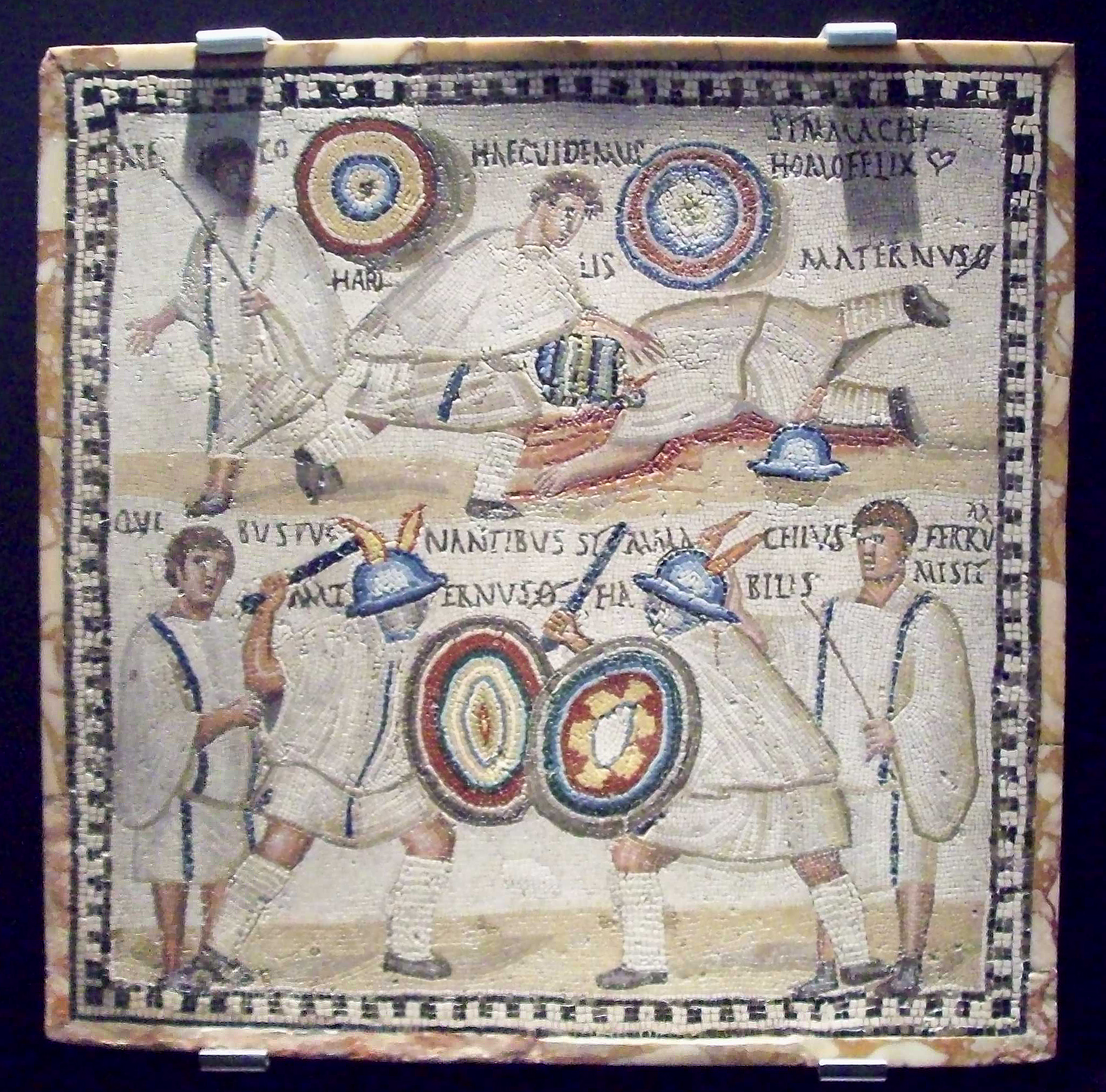 An Ancient Roman mosaic representing the fight between two murmillo–class gladiators, named Simmachius and Maternus.